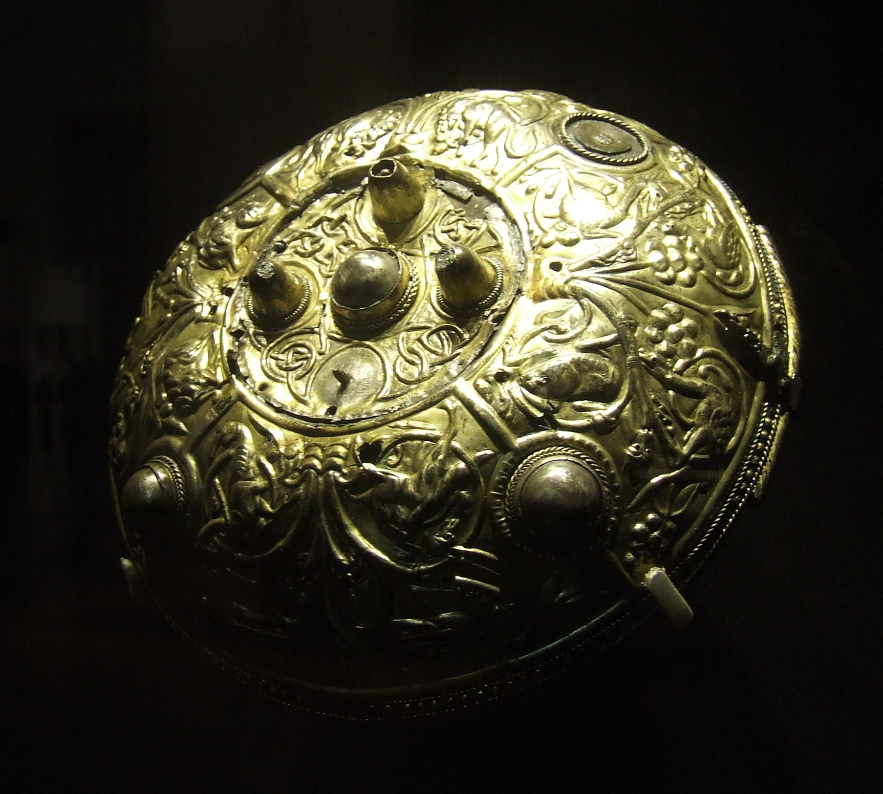 The Ormside bowl in the British Museum. It is a silver and glass double bowl dating from the AD 750-800 which was found in 1823 buried next to a Viking warrior in Ormside, Cumbria